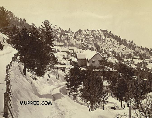 Snow fall in Murree, Pakistan. (1865)